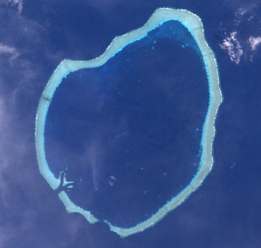 Satellite image of Roncador Reef, Solomon Islands, Pacific Ocean